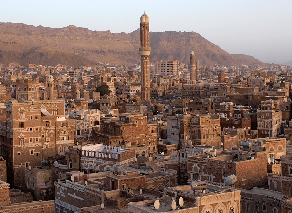 Old Sana'a